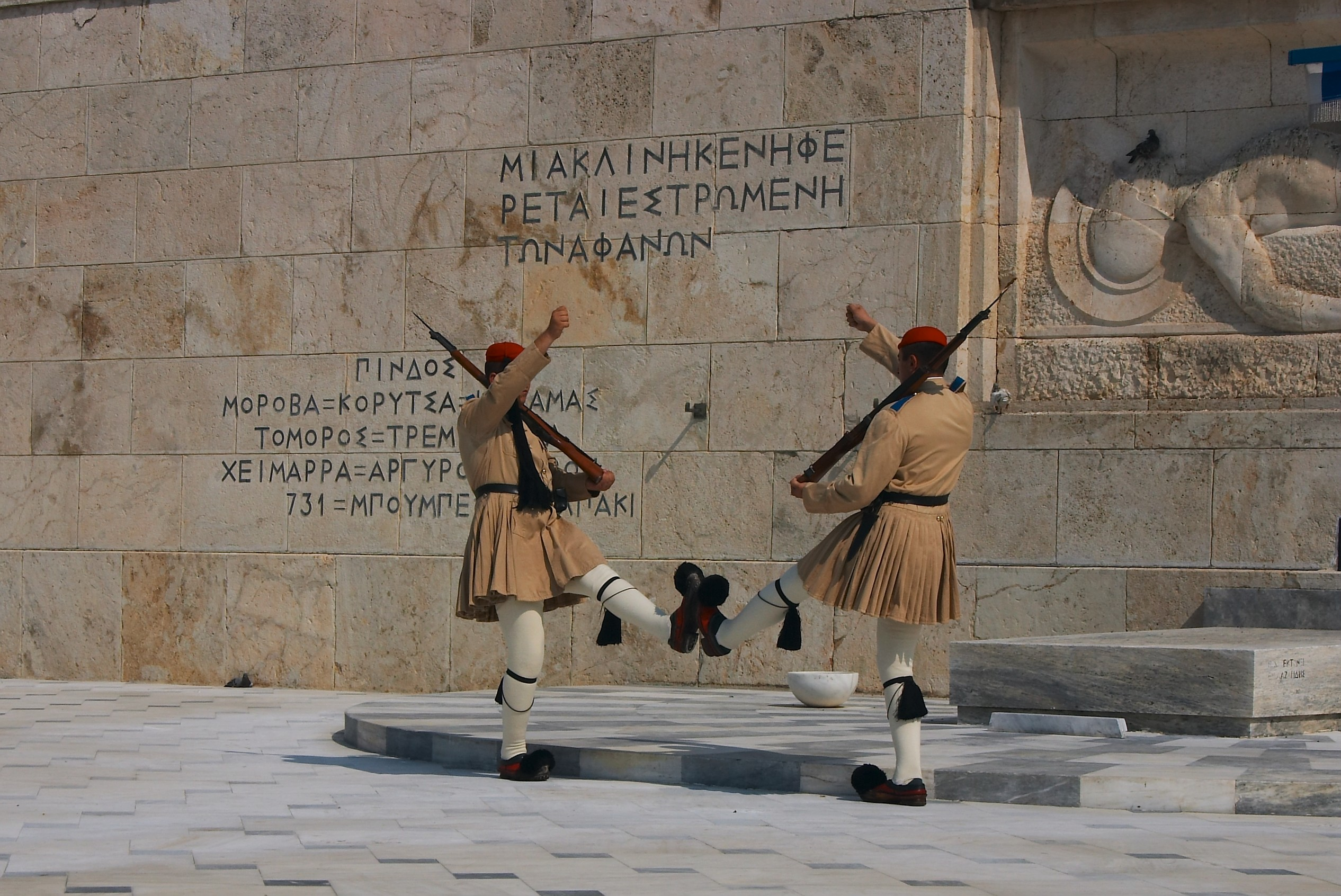 Evzones at the Tomb of the Unknown Soldier, Hellenic Parliament, Athens, Greece. The sculpture is of a Greek soldier and the inscriptions are excerpts from the Funeral Oration of Pericles, 430 B.C. in honour of Athenians slain in the Peloponnesian War.